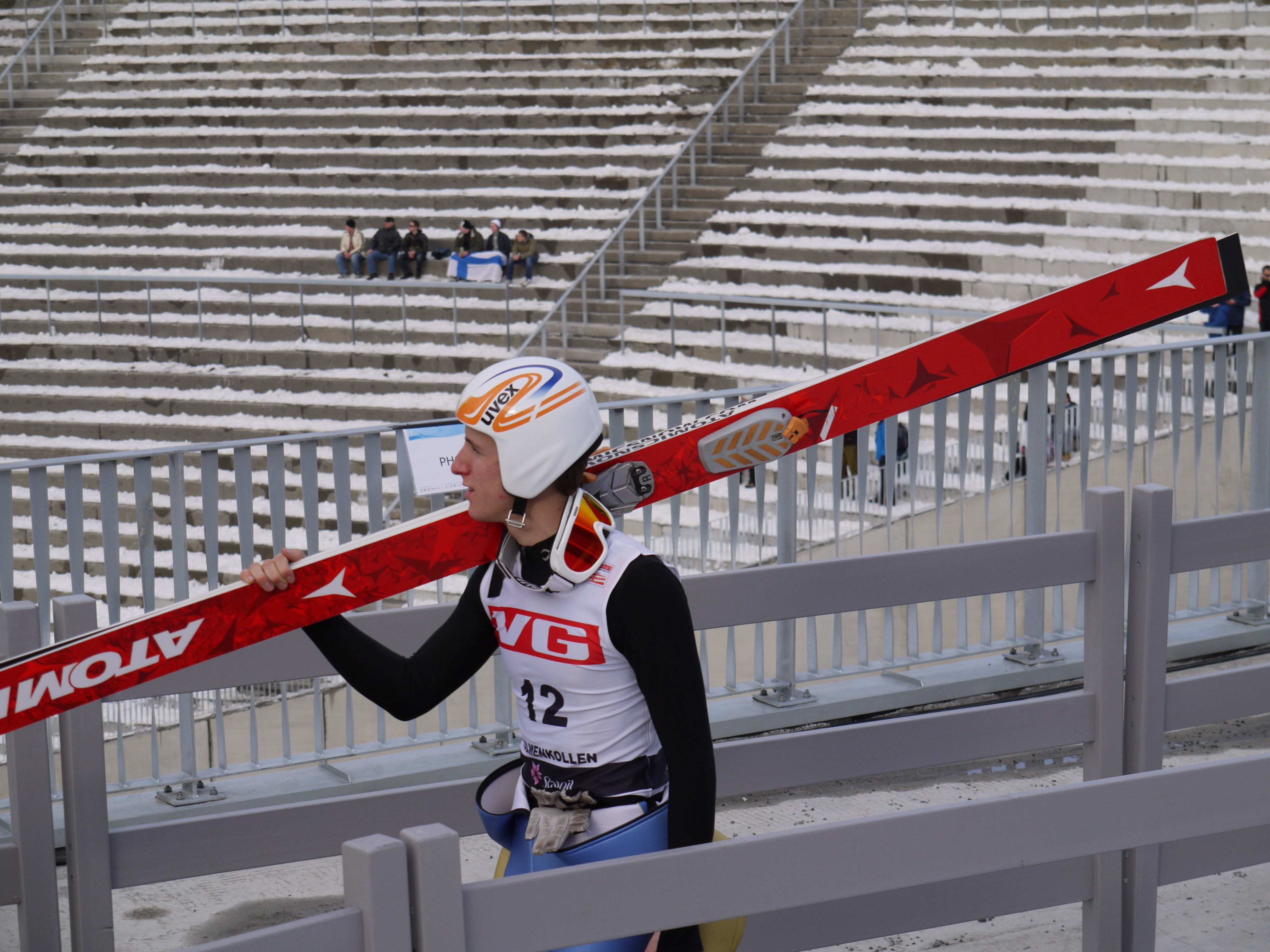 2010 ski jumping World Cup event in Holmenkollen